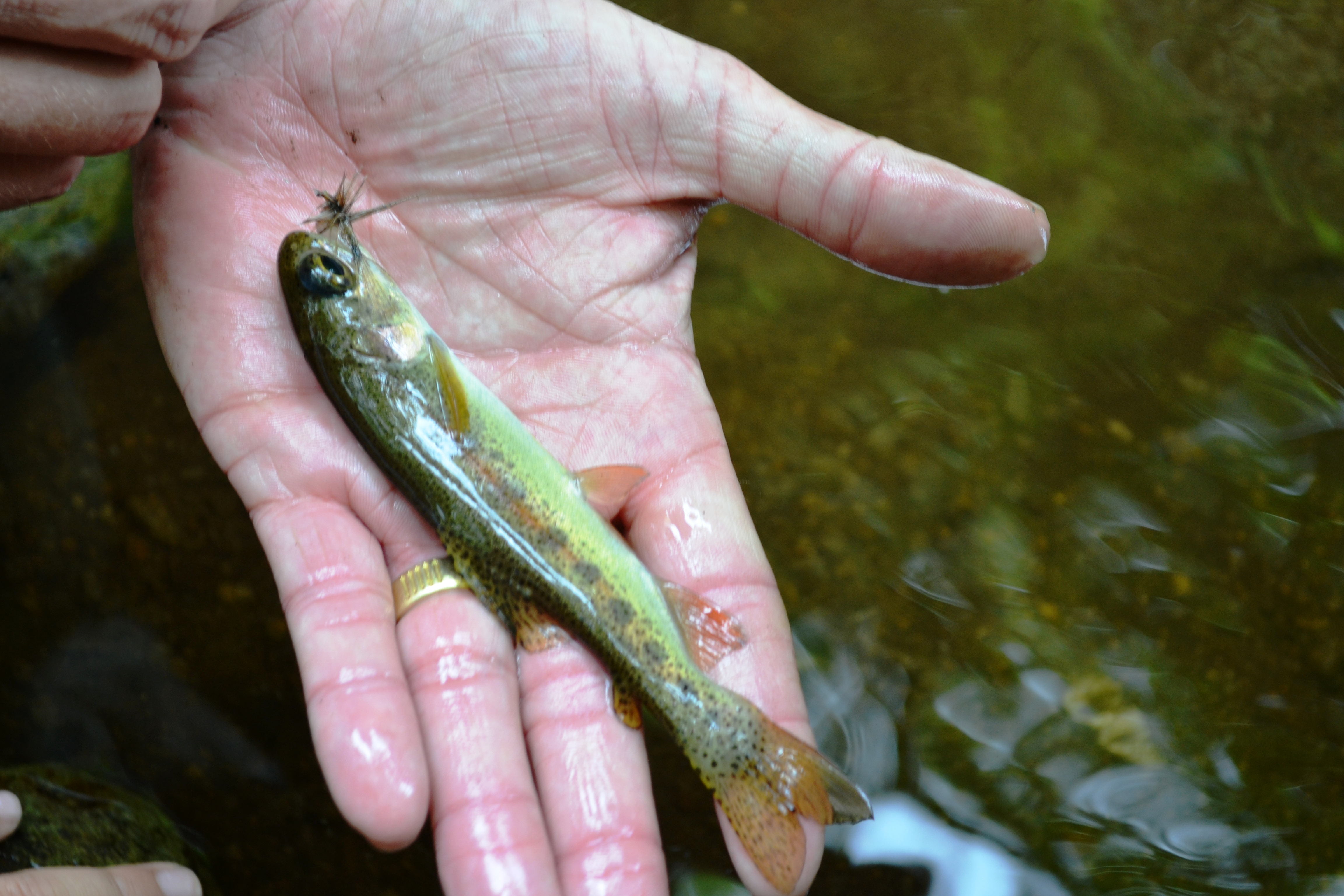 Tenkara fly fishing with Blue Ridge Discovery Center on Wilson Creek